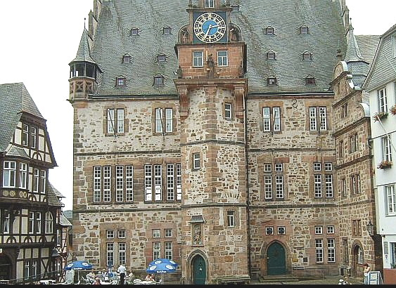 The town hall of Marburg (Lahn), Hessia, Germany